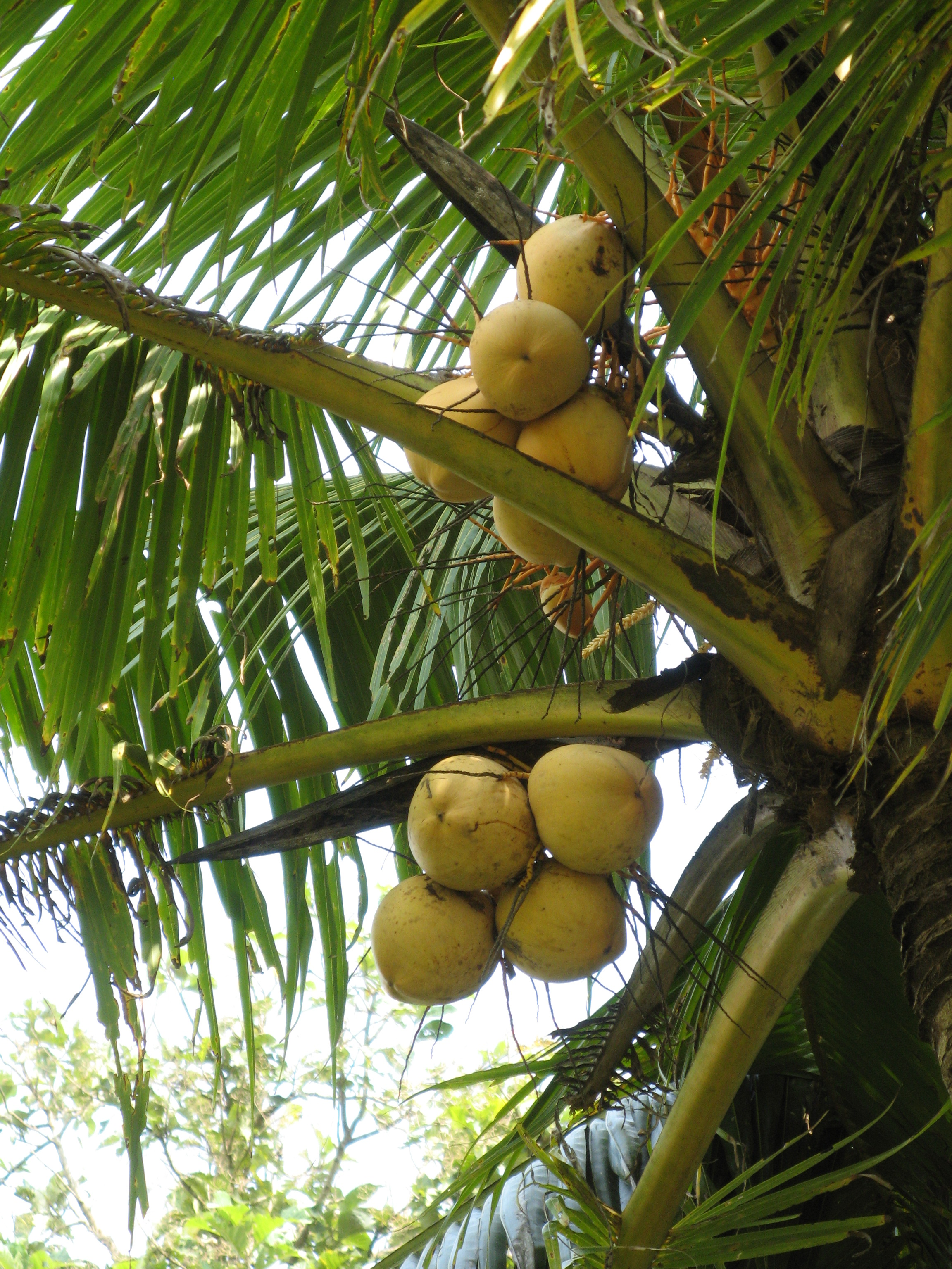 Yellow coconuts